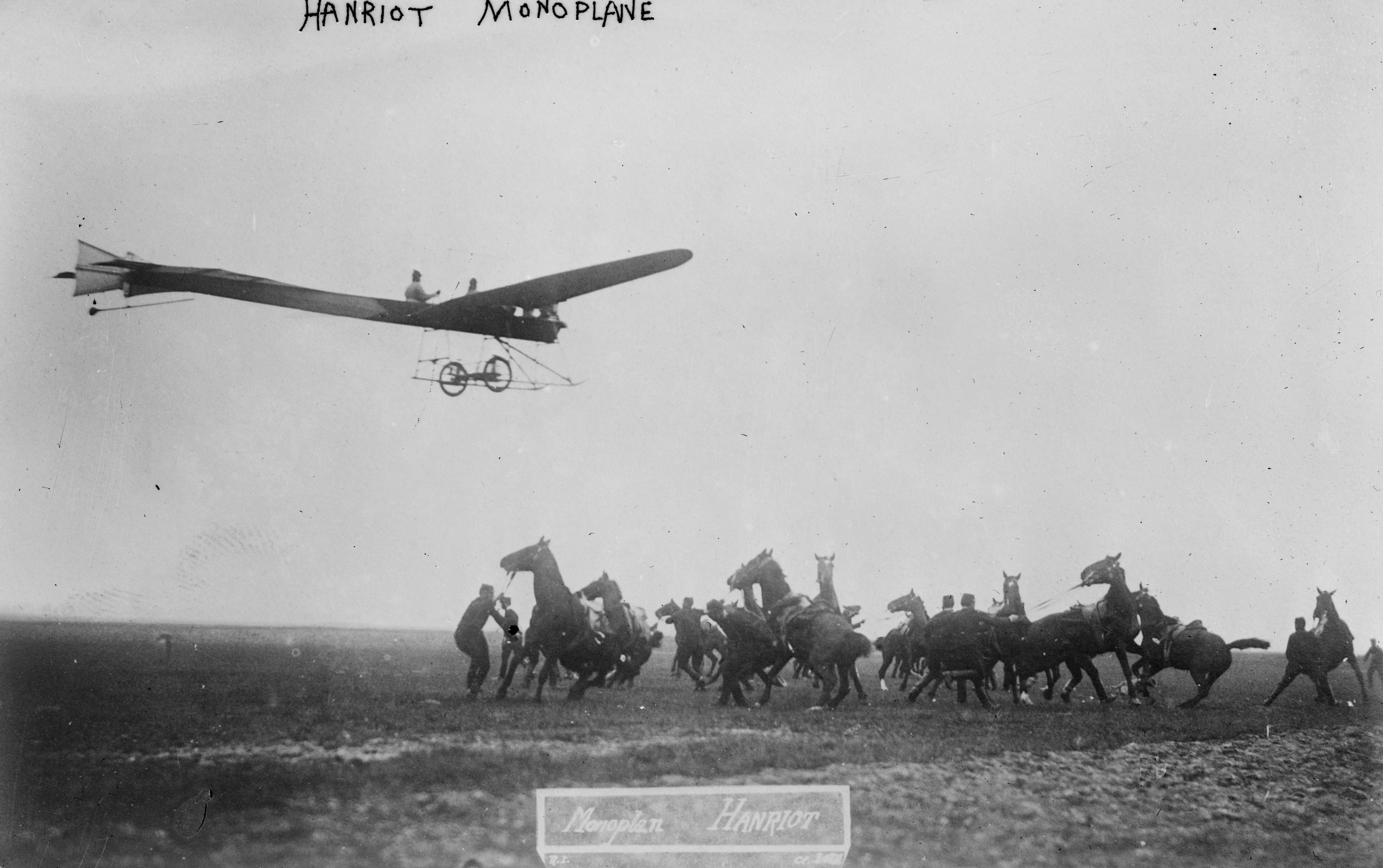 Hanriot monoplane, early french aeroplane of René Hanriot (two seat version), 1911.